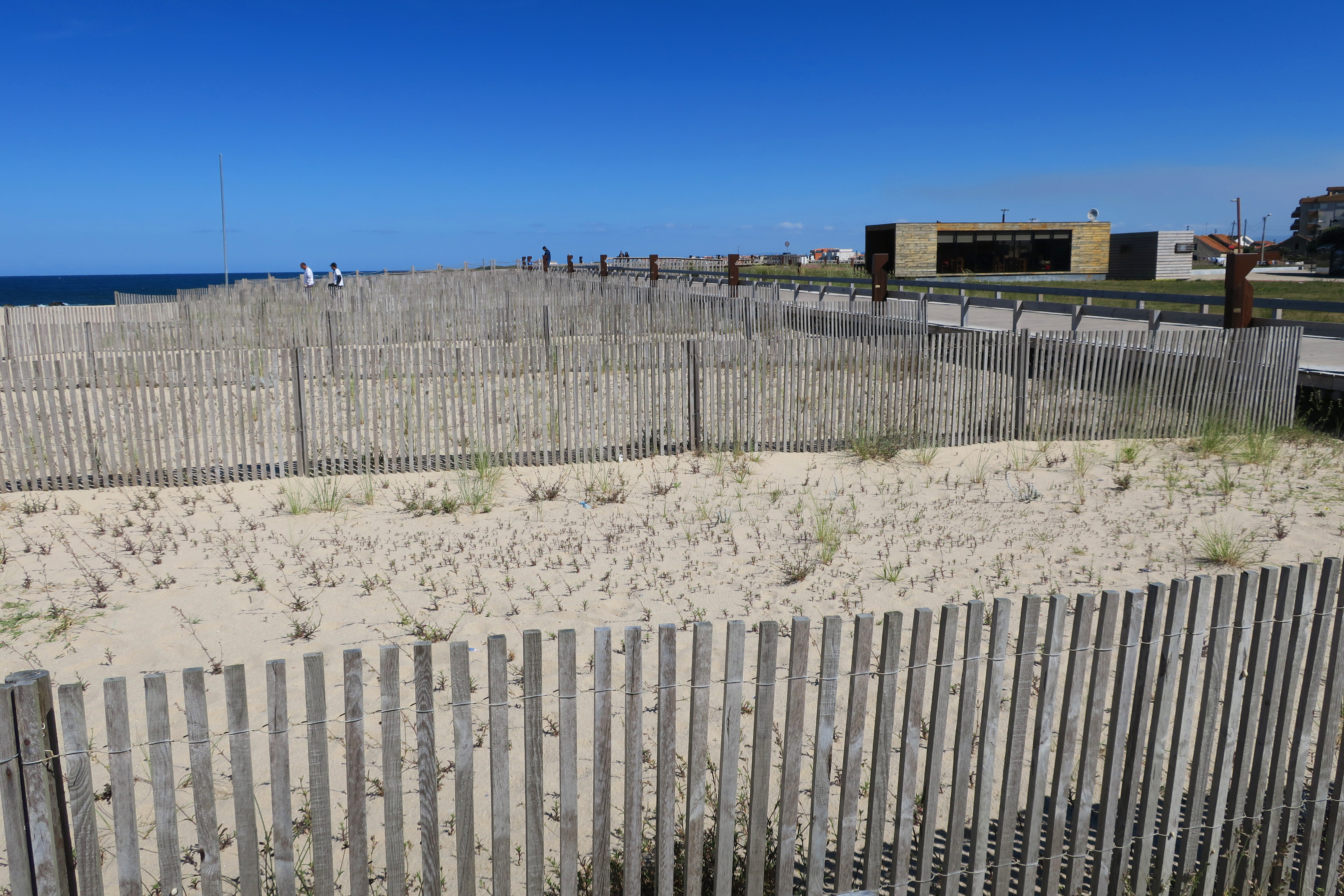 Sand Dune flora recovery project in an urban area of Póvoa de Varzim